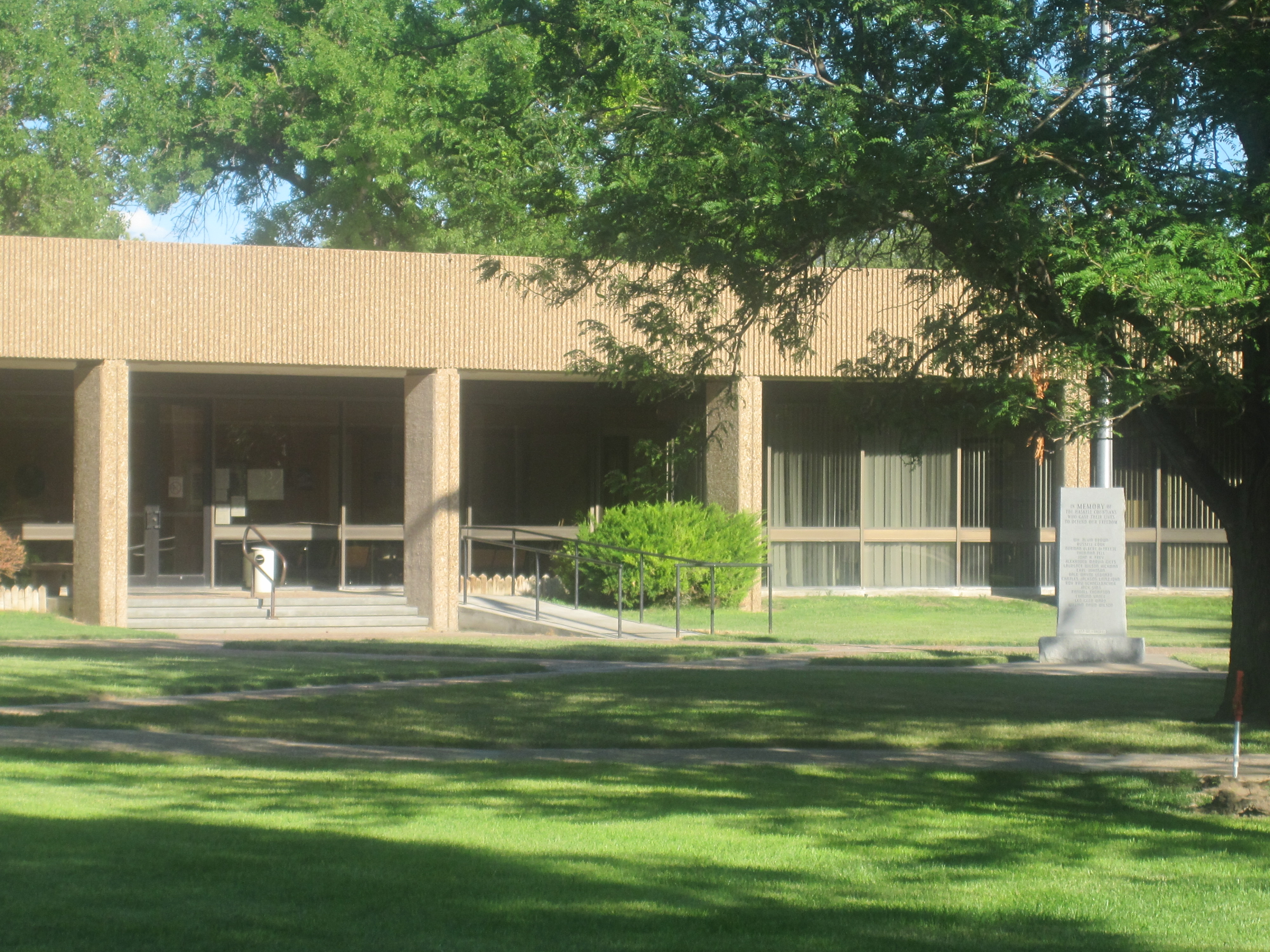 I took photo with Canon camera in Sublette, KS.